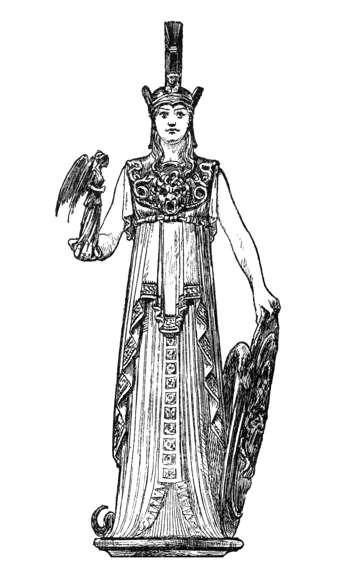 Drawing of Athena Parthenos